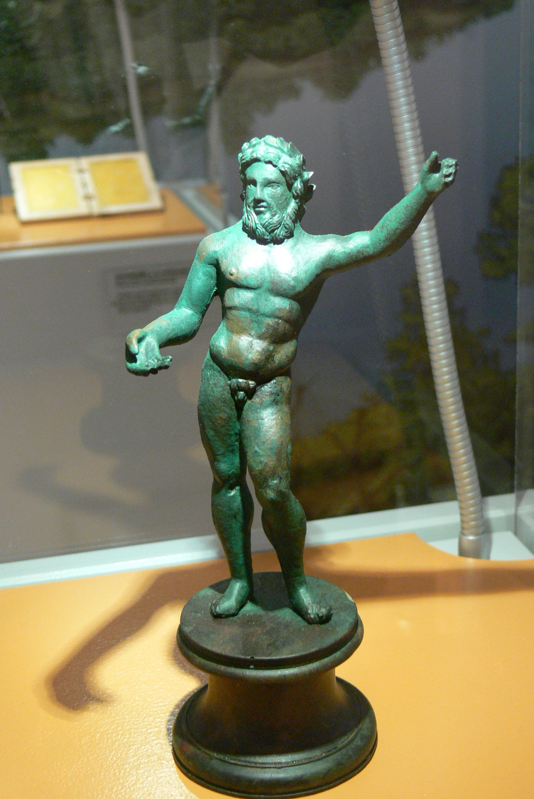 Oberhausmuseum ( Passau ). Statue ( 2nd century AD ) of Jupiter, found in Passau.